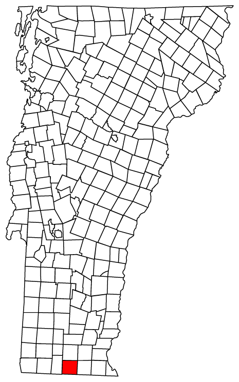 Map of Vermont towns with Whitingham highlighted